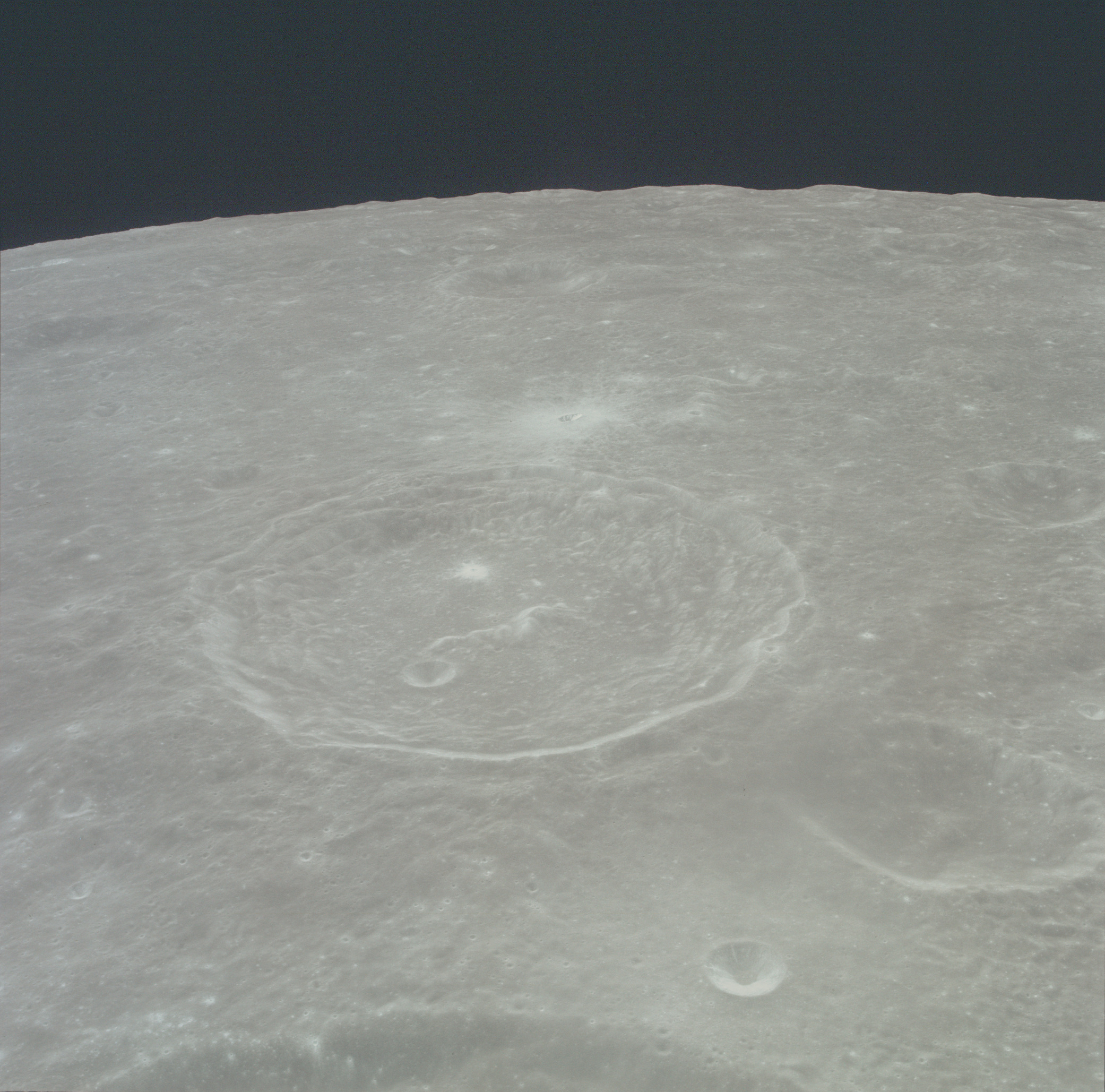 Oblique view of La Pérouse crater, on the moon, facing northwest. The small bright crater beyond the far rim is La Pérouse A, and beyond it in the central background is Von Behring. At the left edge is Kapteyn.